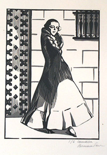 Georges Rene [Hermann-Paul] (1864-1940). Femme Espagnole ca. 1920 Since Hermann-Paul died in 1940, his works are protected by copyright until 2010 (life + 70 years). However, in the United States, all works prior to 1923 are public domain.